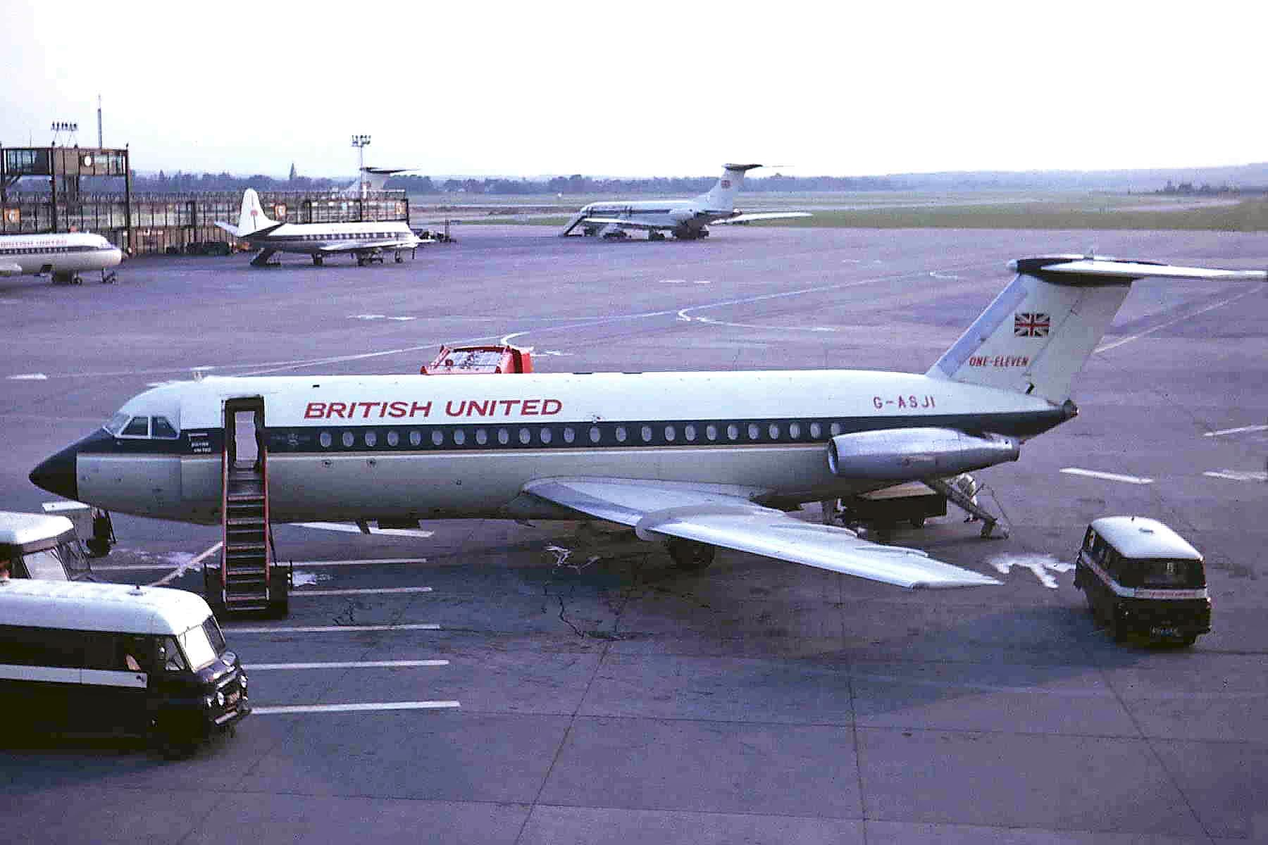 London-Gatwick (LGW) in the mid 1960's. Not exactly busy is it! Sometimes with these old photo's, it's not the subject but what's in the background... In this case, as well as the early One-Elevens and Viscounts, it's two BUA VC-10's !!!